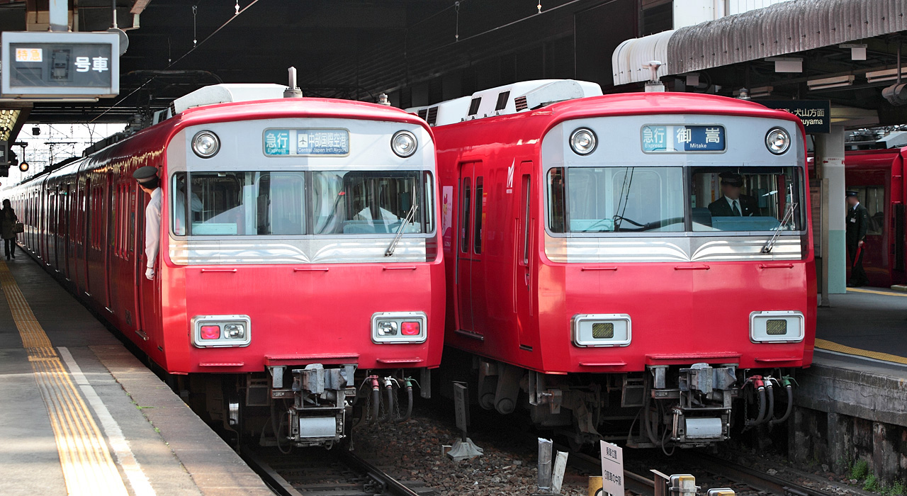 Meitetsu 6000 series EMU phase 9 ( left ) and 6500 series EMU phase 1 - 5, at Jingū-mae Stn..